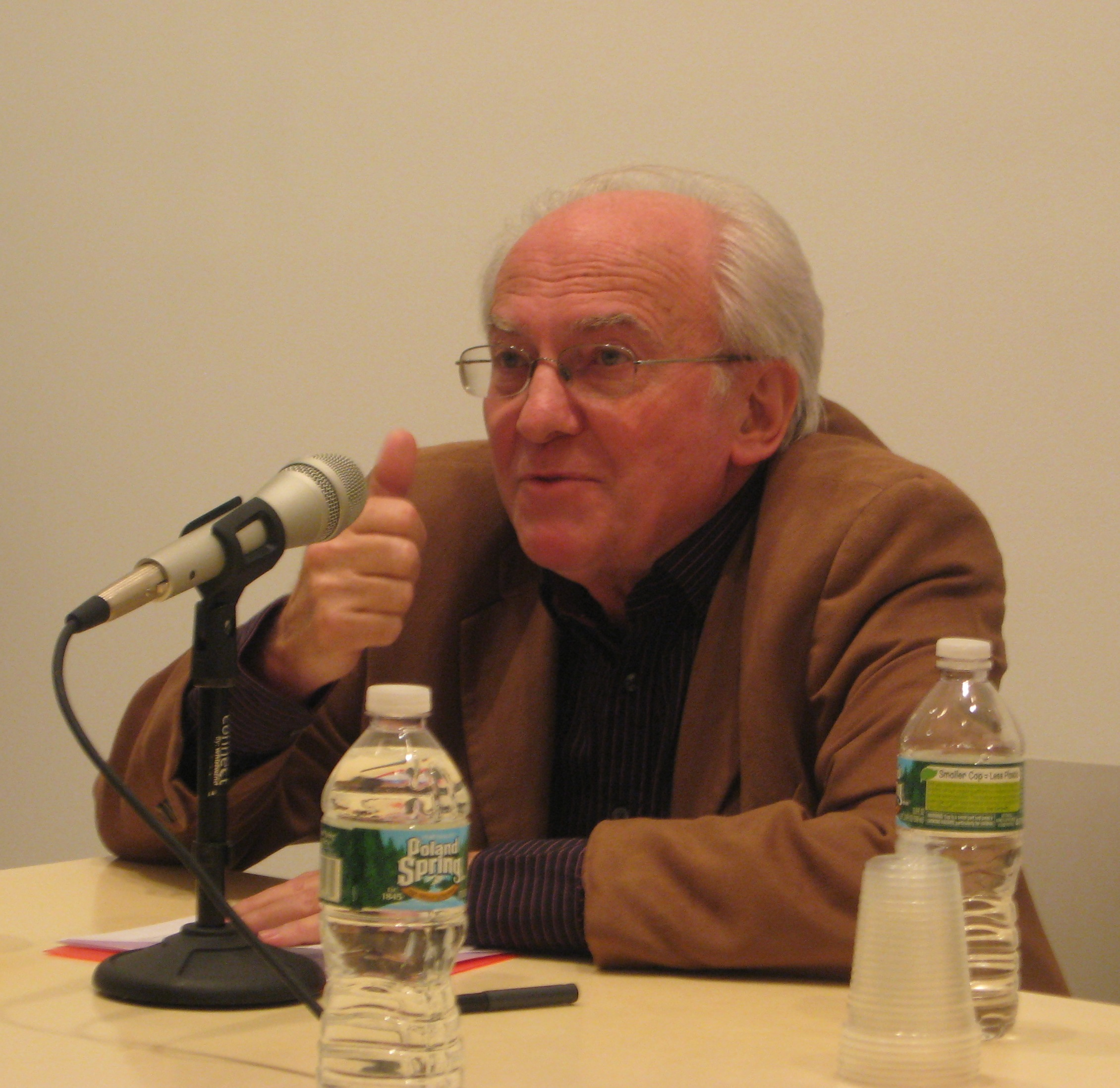 François Laruelle, at the Miguel Abreu Gallery, New York City on April 6, 2011.